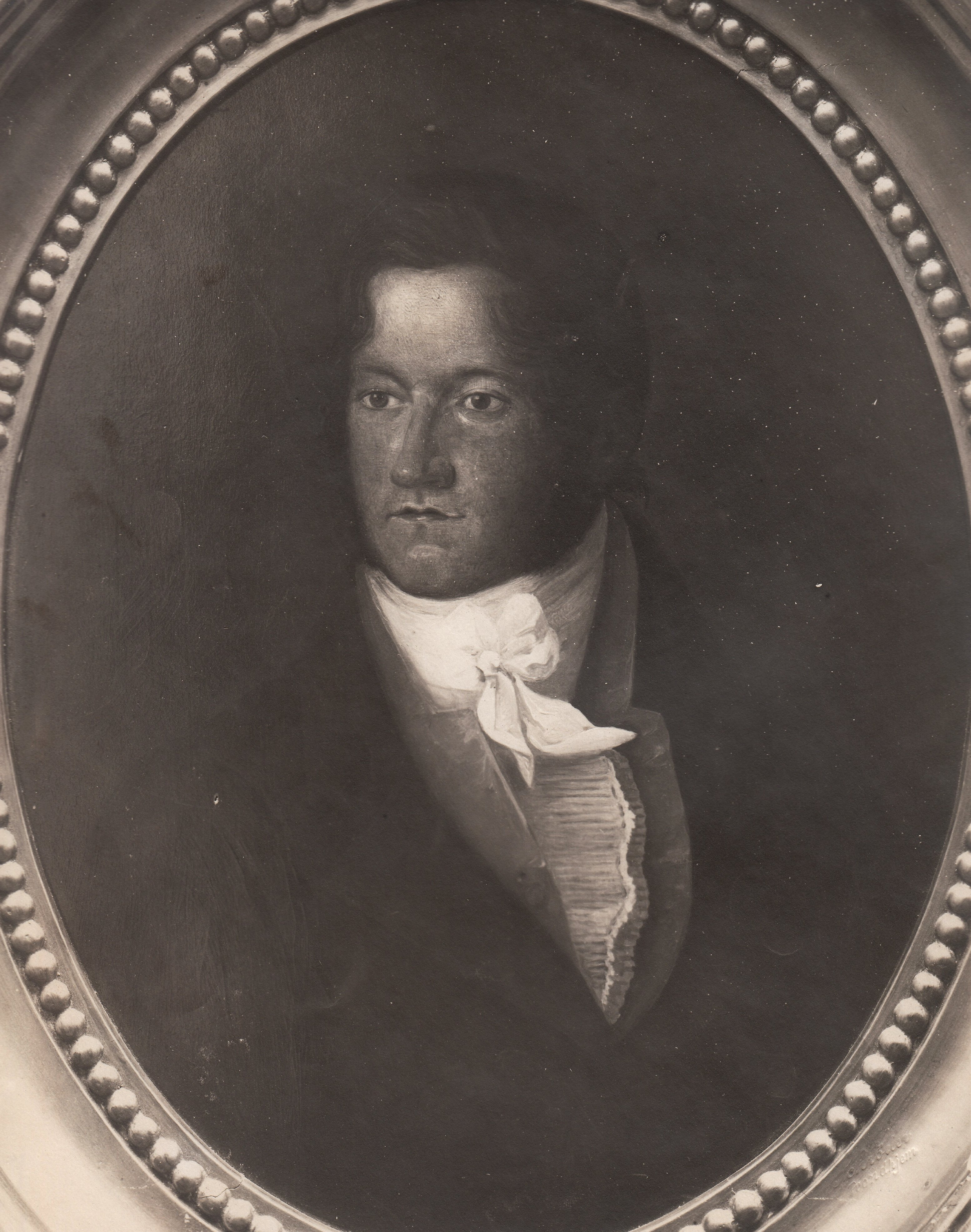 Daguerreotype portrait from ca. 1843, unknown photographer. Photographed by Erik Olsen in 1897 in connection with the exhibition Trondhjems 900-årsjubileum. Depicted person: Jørgen B Lysholm – Norwegian businessman